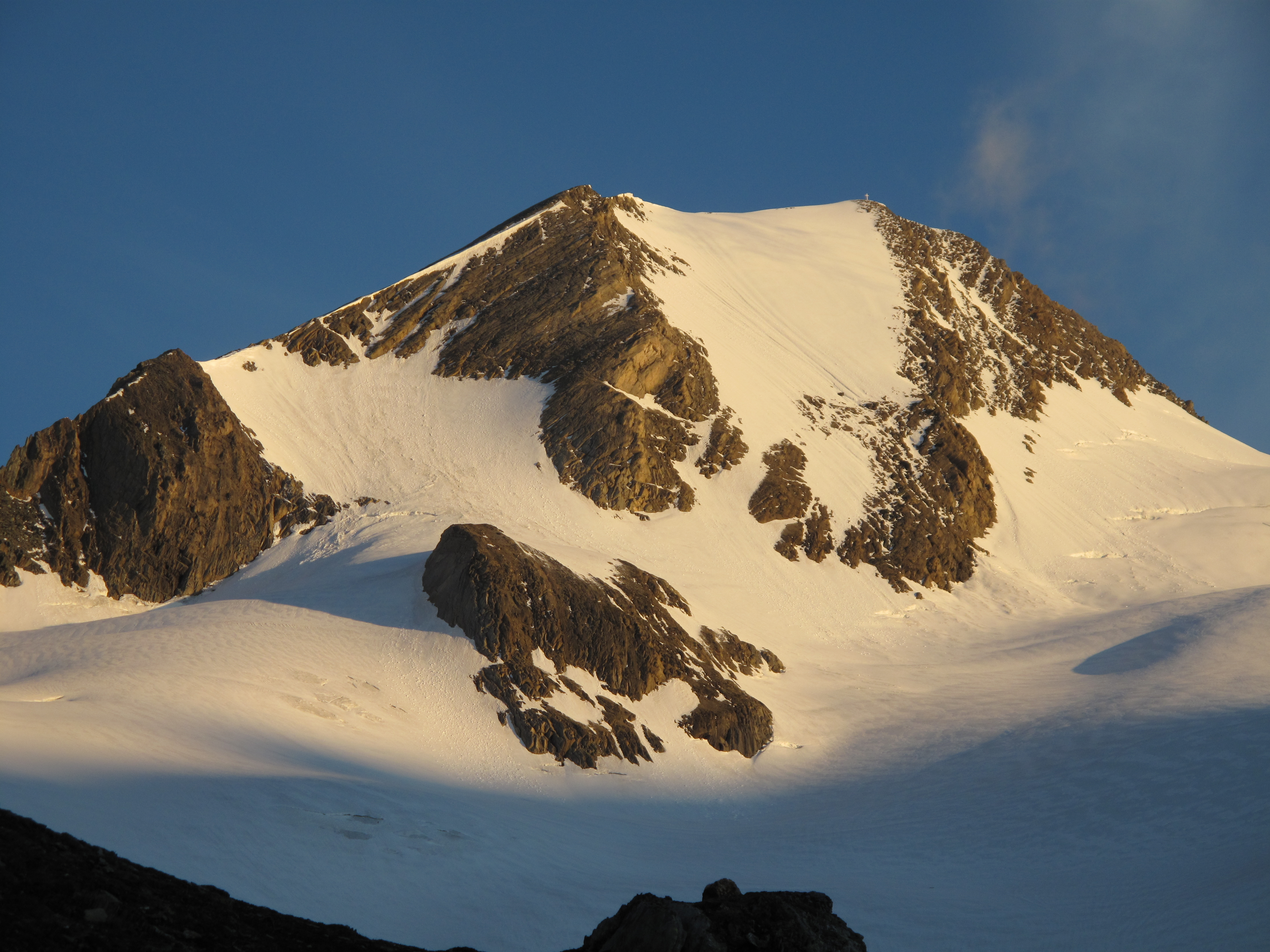 east side of Rötspitze